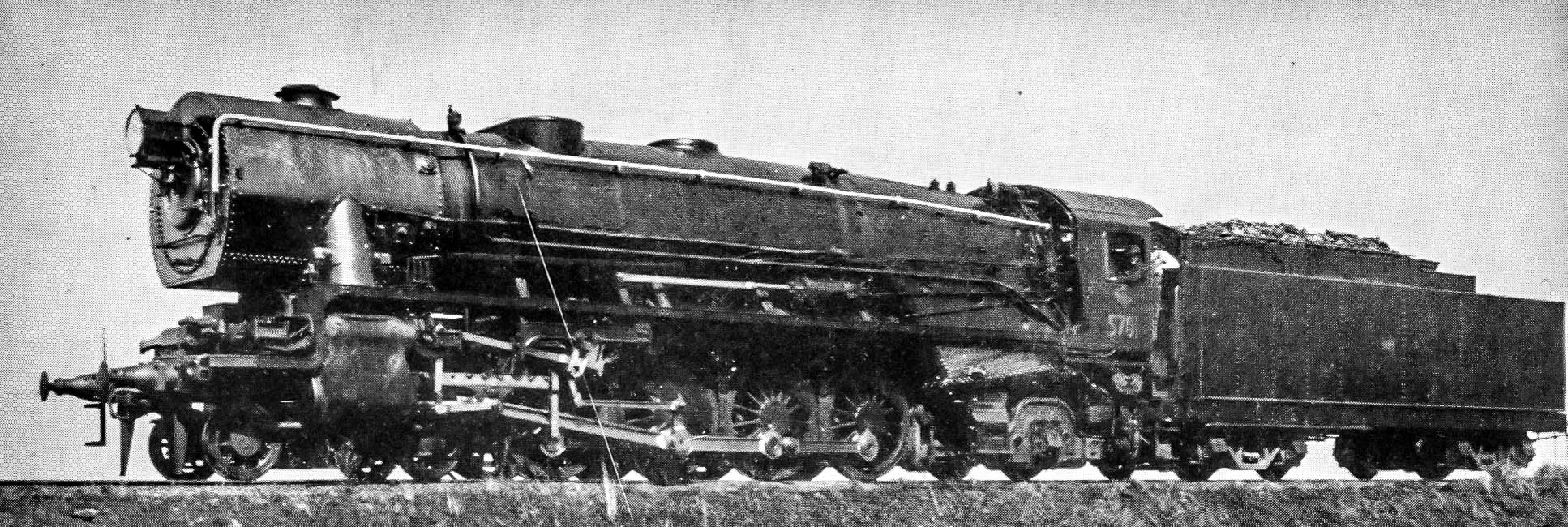 NSWGR Class D57 Locomotive